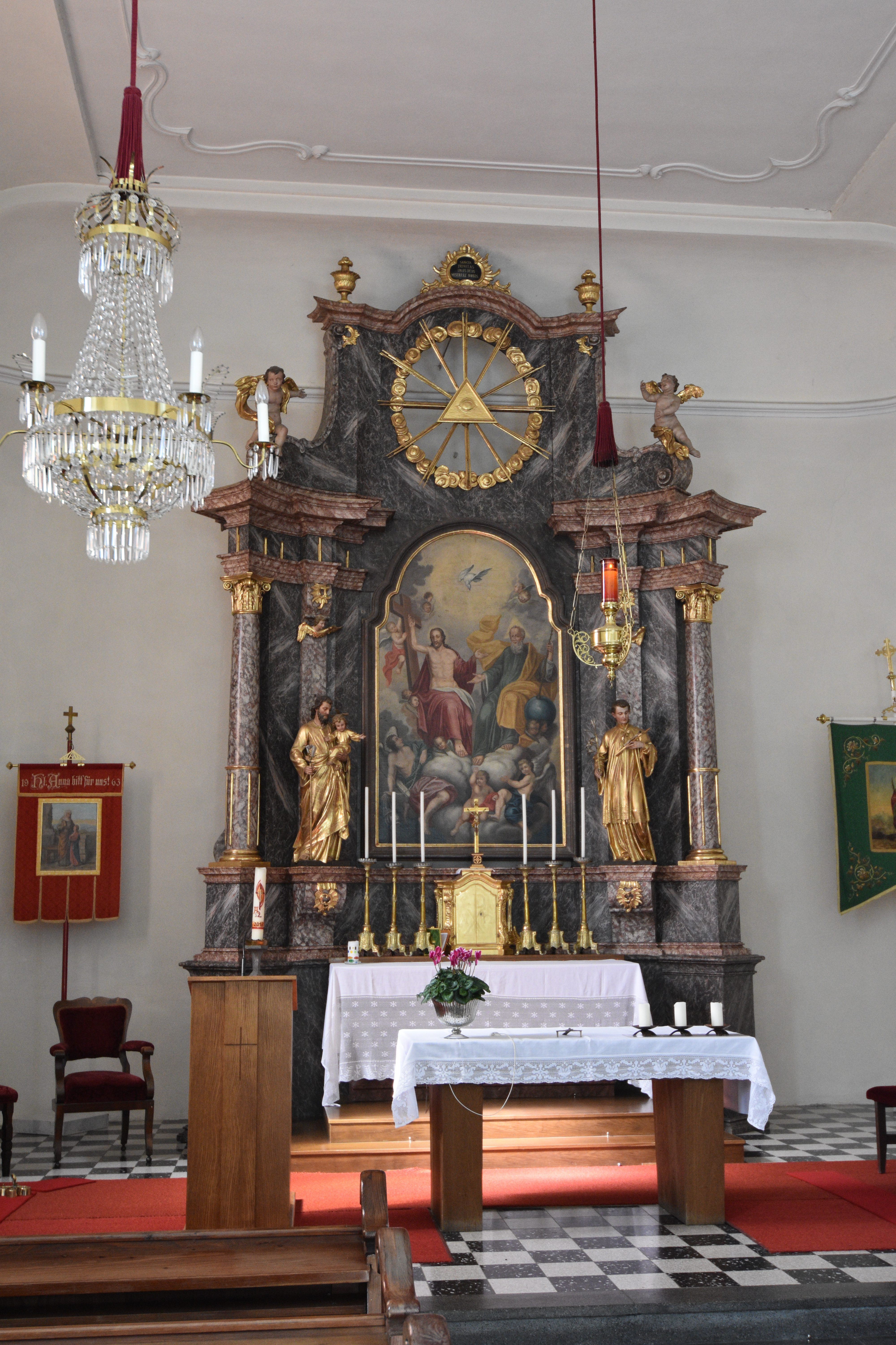 Pfarrkirche Gutenberg an der Raabklamm - Interior